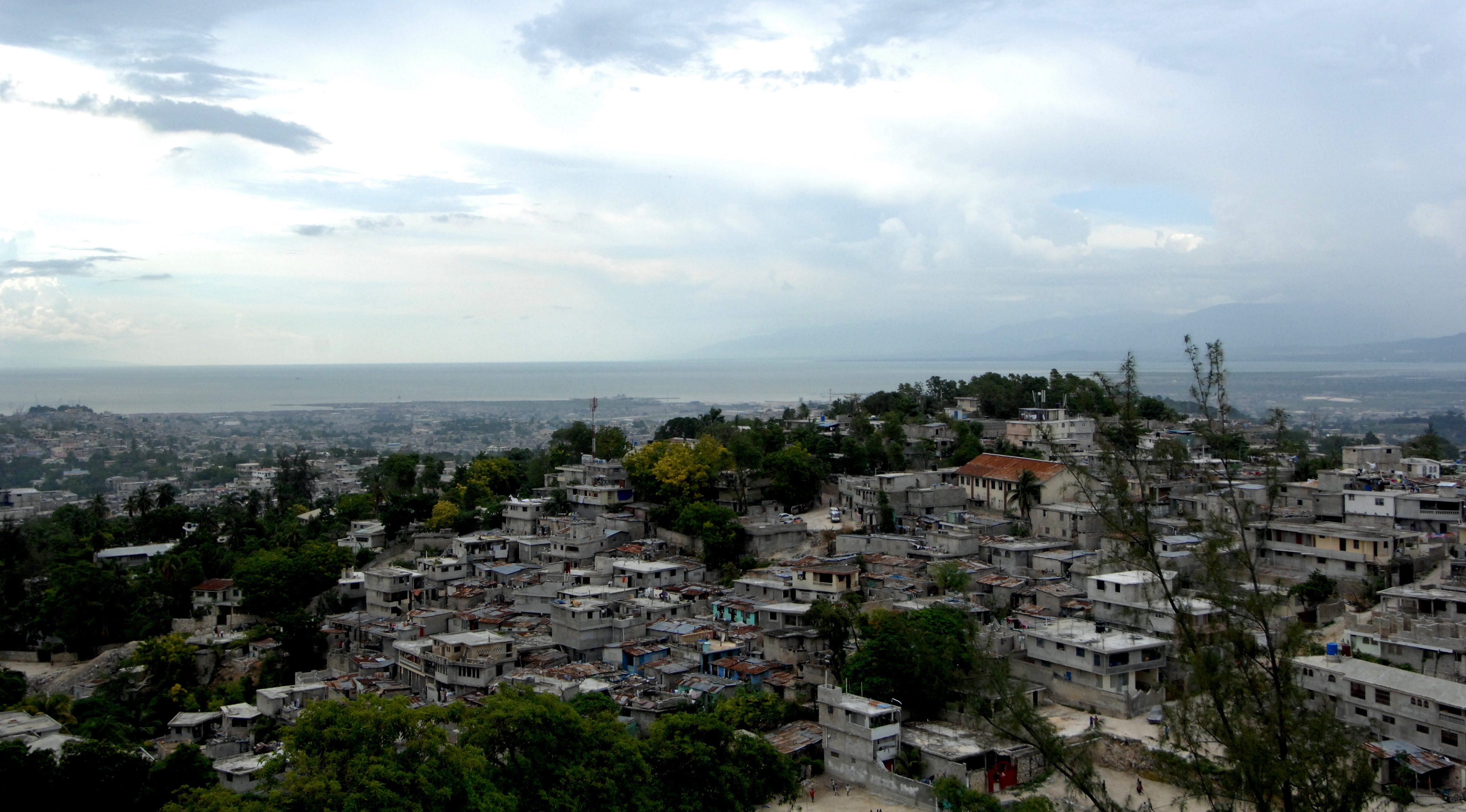 An aerial view of Port-au-Prince, Haiti, is shown Sept. 16, 2008, from the U.N. Stabilization Mission in Haiti (MINUSTAH) headquarters building. MINUSTAH is the U.N.-led multinational peacekeeping security force helping to establish, maintain and ensure order, safety and security during international relief efforts in Haiti following the landfall of several tropical storms and hurricanes. The Department of Defense is contributing to hurricane relief operations in Haiti being led by the U.S. Agency for International Development and its office of U.S. foreign disaster assistance.